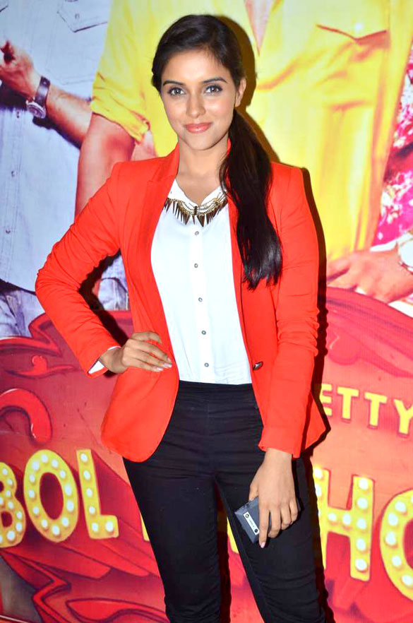 Asin 'Bol Bachchan' team on the sets of Taarak Mehta Ka Ooltah Chashmah